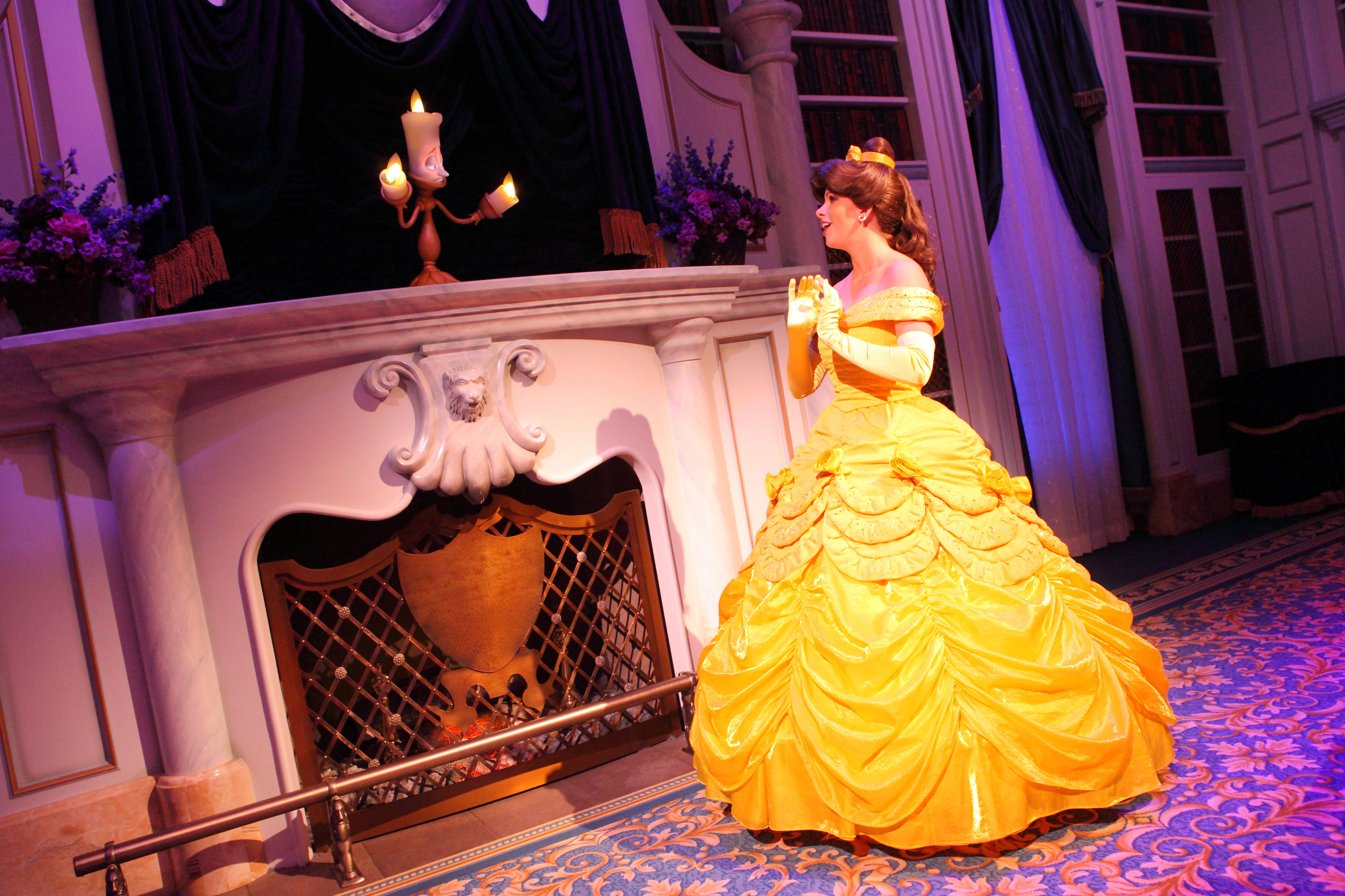 Belle speaks with Lumiere at Enchanted Tales with Belle in New Fantasyland at Magic Kingdom.